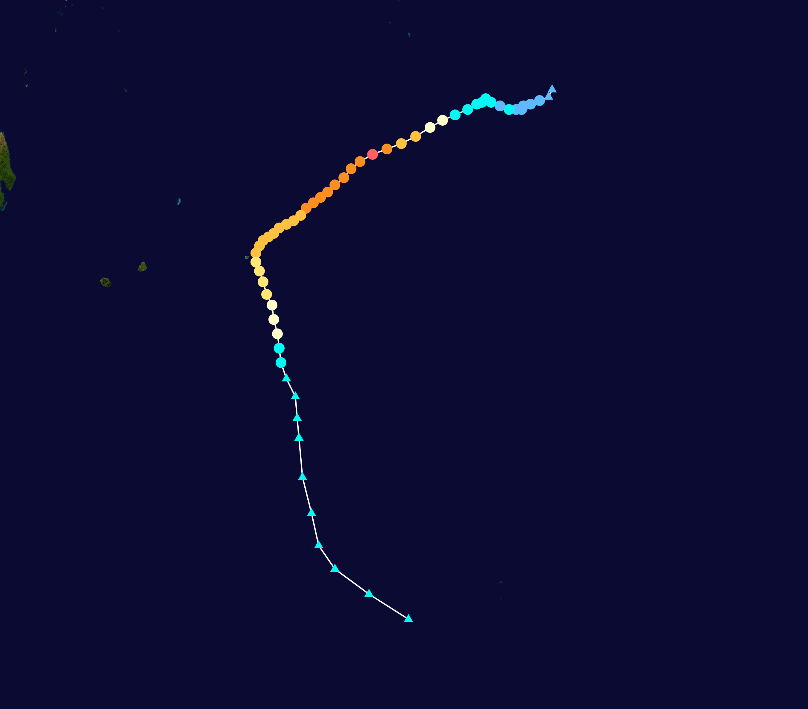 Cyclone Kalunde (2003) track. Uses the color scheme from the Saffir-Simpson Hurricane Scale.